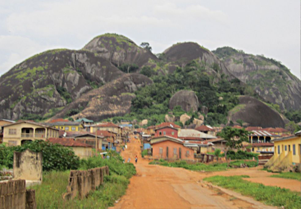 Type locality of Amietophrynus perreti at the Idanre Hills, south-western Nigeria